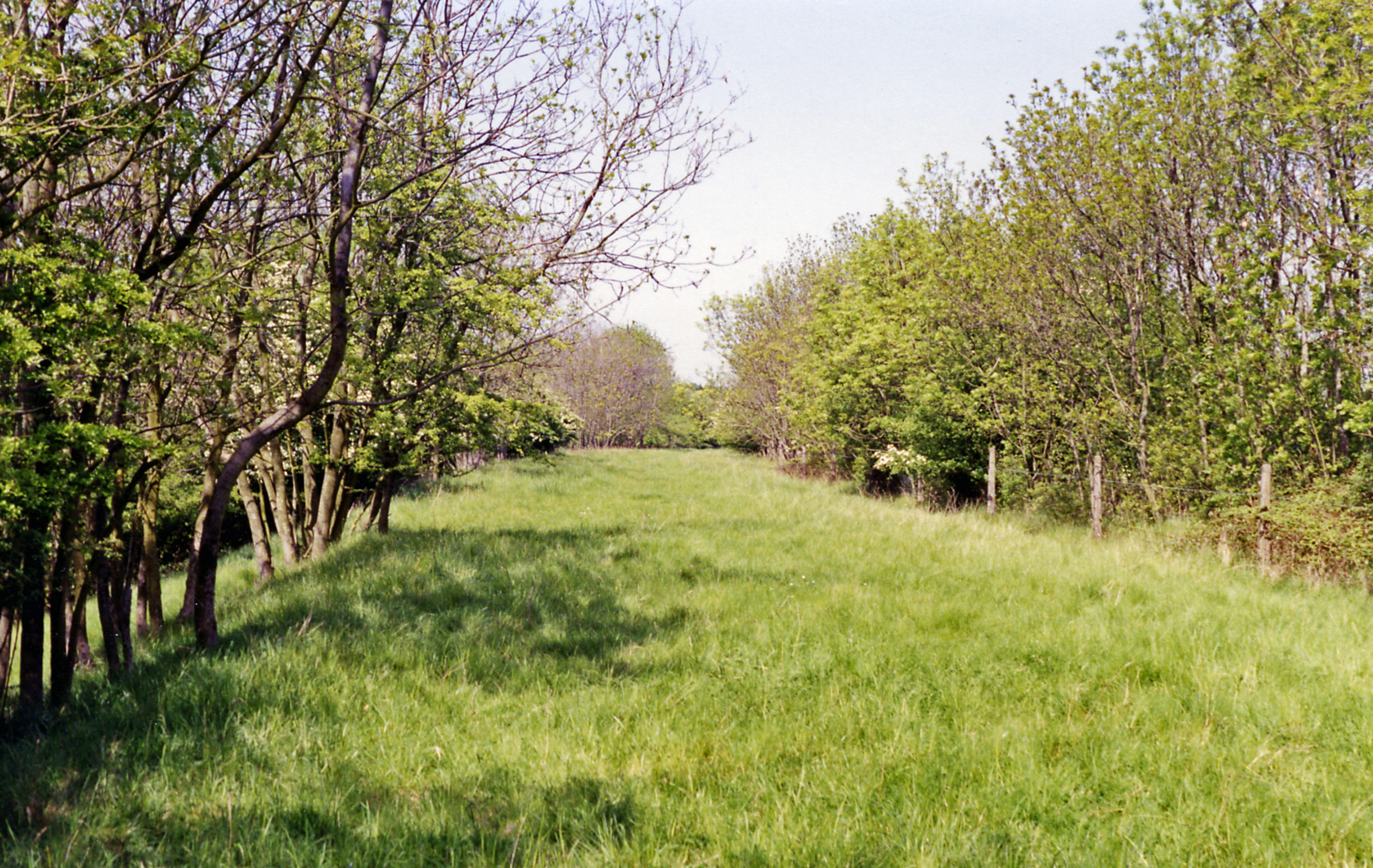 Site of Eydon Road Halt, near Culworth 1992. View northward: a sylvan scene where once ran the important ex-Great Central line between Woodford Halse (Culworth Junction) on the 'London Extension' and Banbury on the ex-GWR system. Halts on this line were served by a few local trains, but the line mainly served as an important link for North-South freight and some through express passenger traffic - until at a stroke all was abandoned on 5/9/66, and since then everything has proceeded along the A34 road system